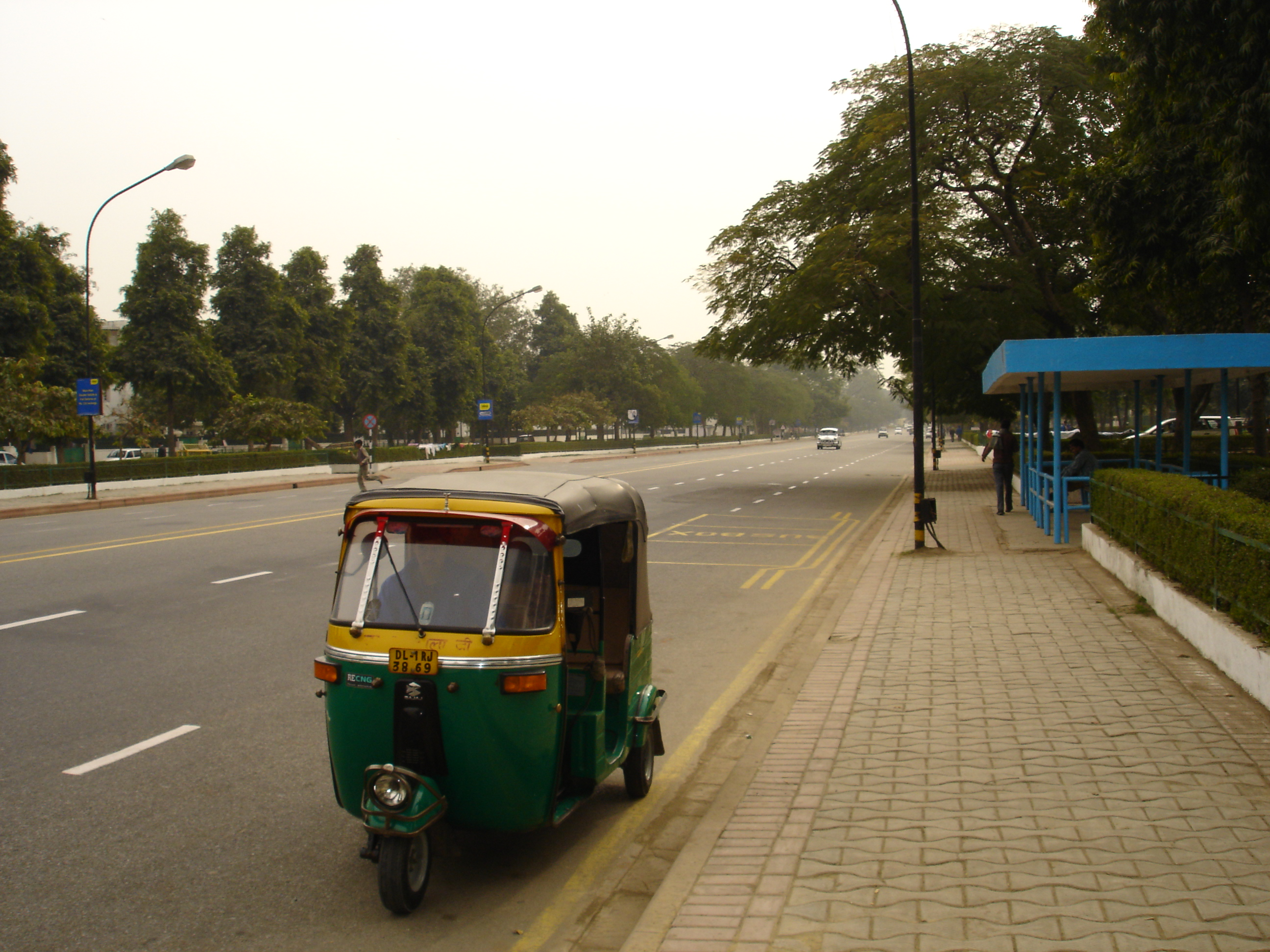 An autorickshaw on Tilak Marg in New Delhi. The green colour of this vehicle indicates that it is running on compressed natural gas.